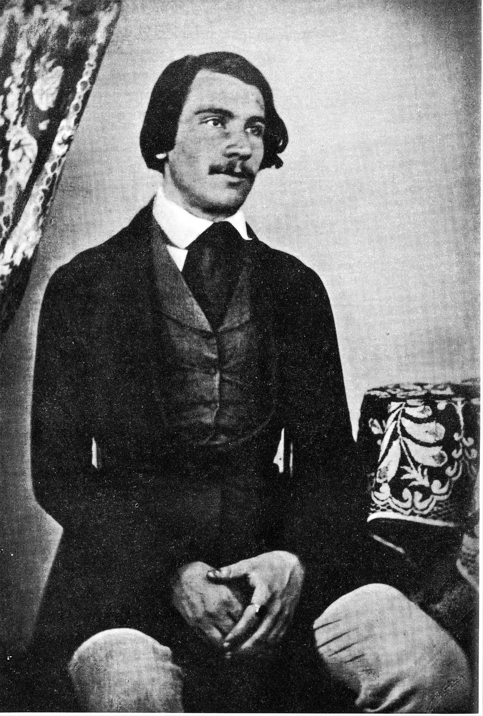 Carl Jacob Christoph Burckhardt, Swiss historian, portrait made circa 1840.